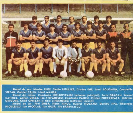 FC Petrolul Ploiești squad 1988-89 Divizia B season.